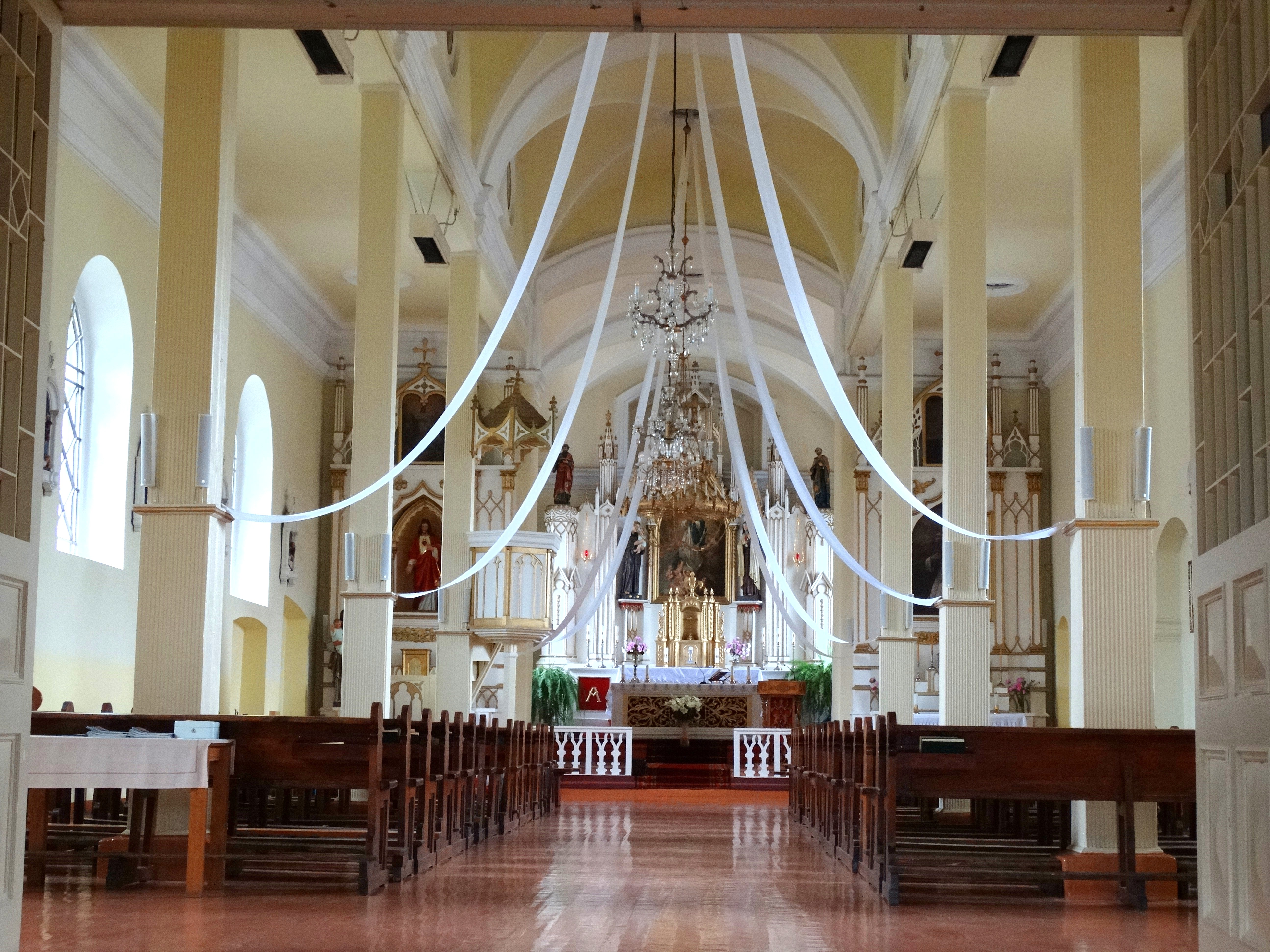 Catholic church, Panemunė (Kaunas), Lithuania